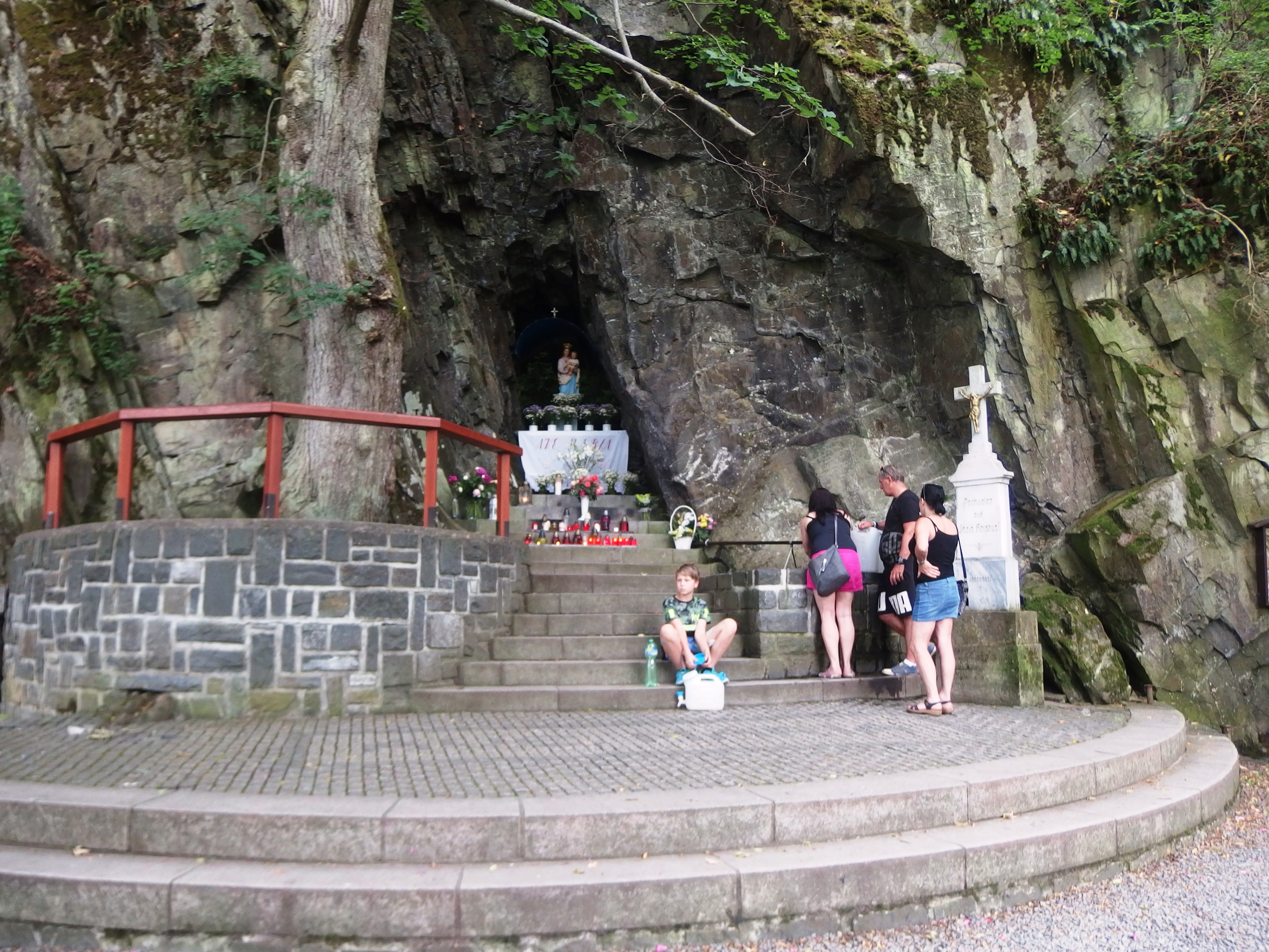 Odry, Nový Jičín District, Czech Republic, part Klokočůvek.